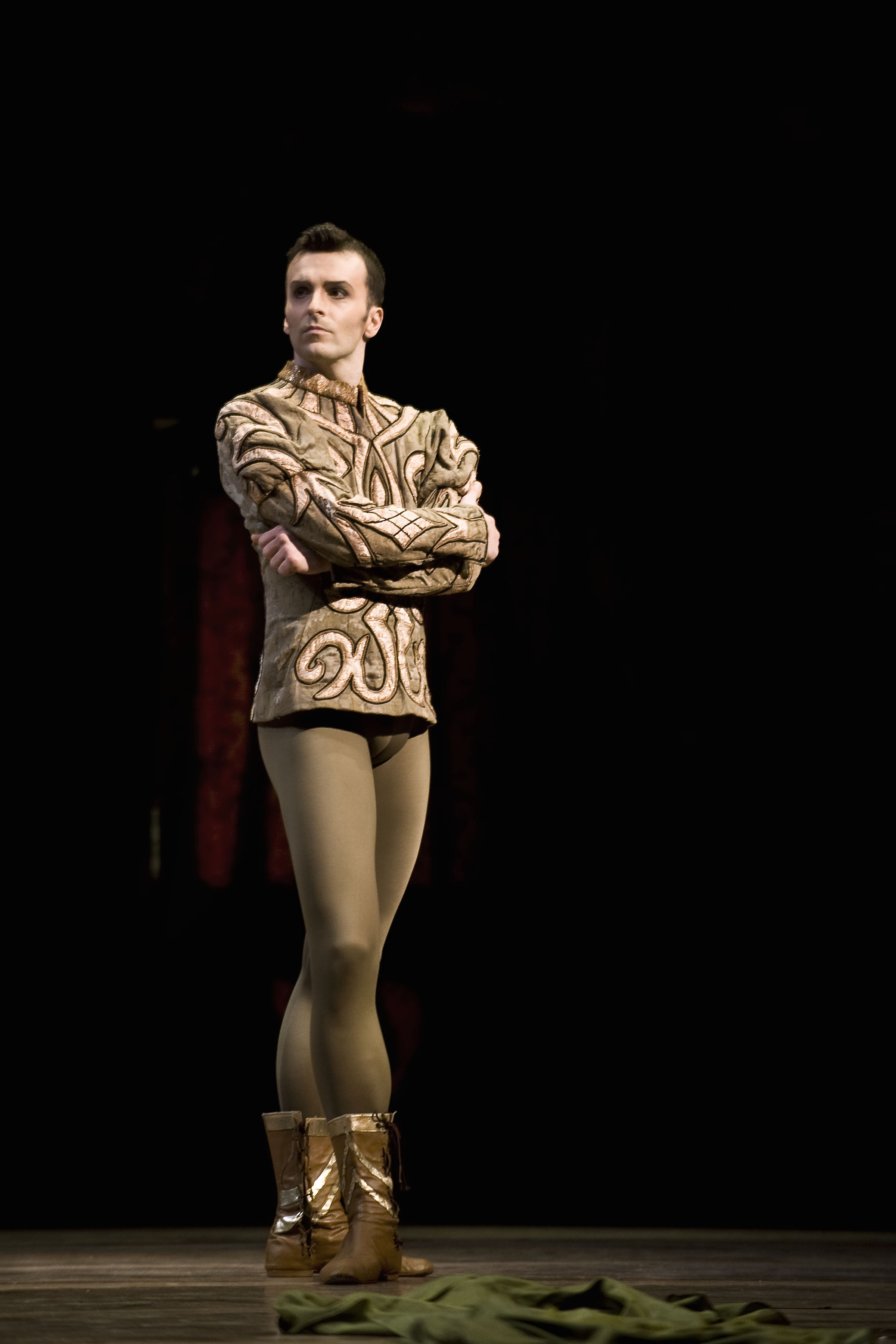 Dragos Mihalcea in 2010